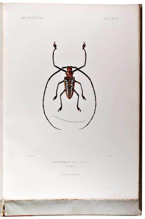 Arcana Naturae